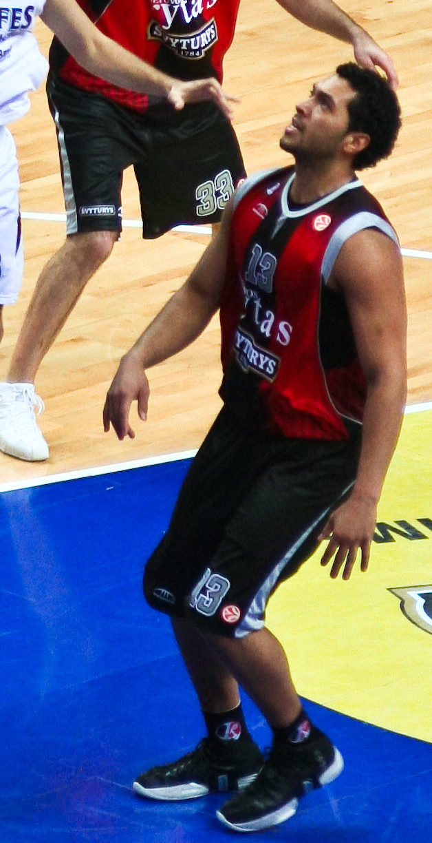 J.P. Batista in action during BC Lietuvos Rytas Vilnius home game against BC Efes Pilsen Istanbul in Siemens Arena, Lithuania